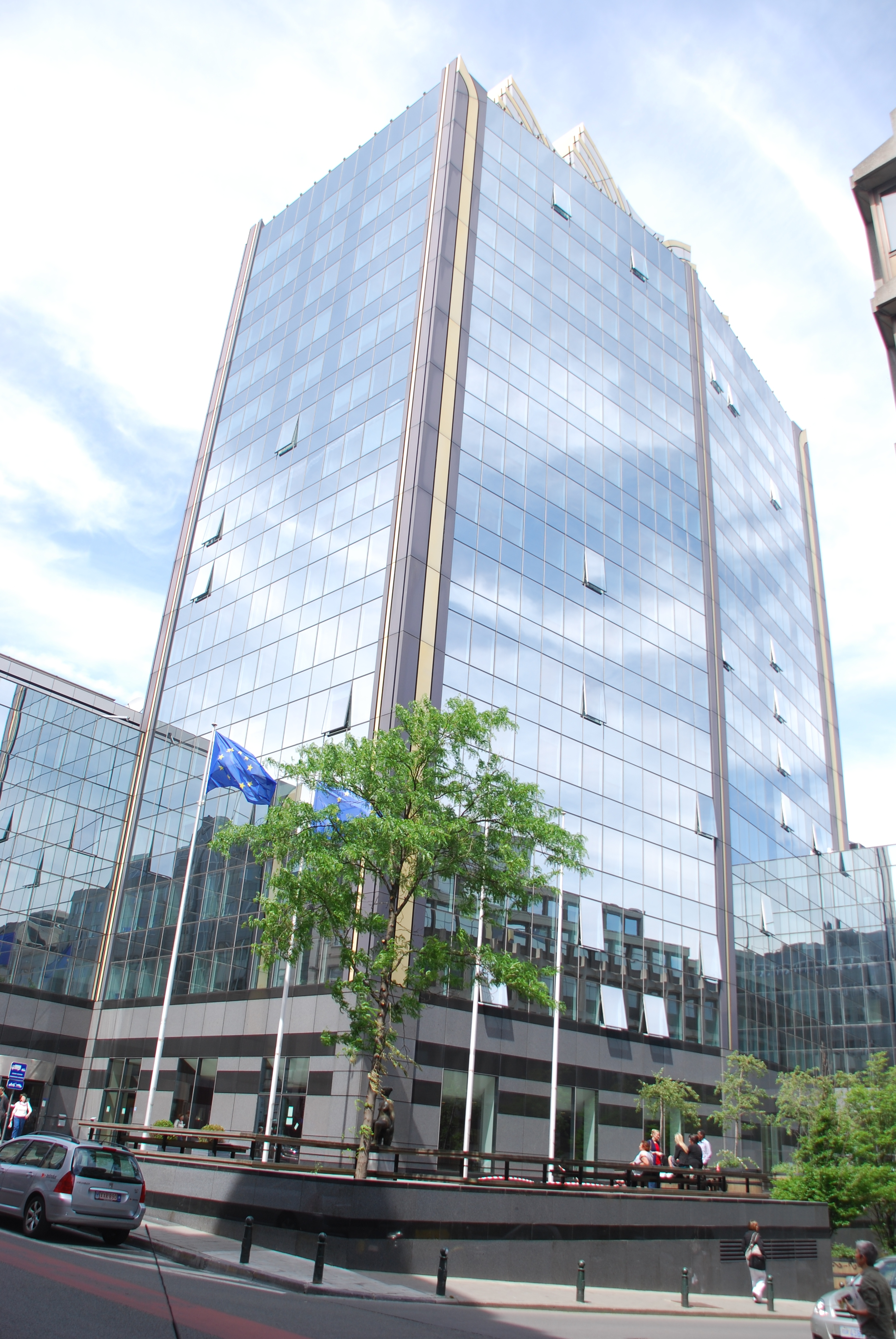 European Anti-fraud Office, Rue Joseph II, Brussels.